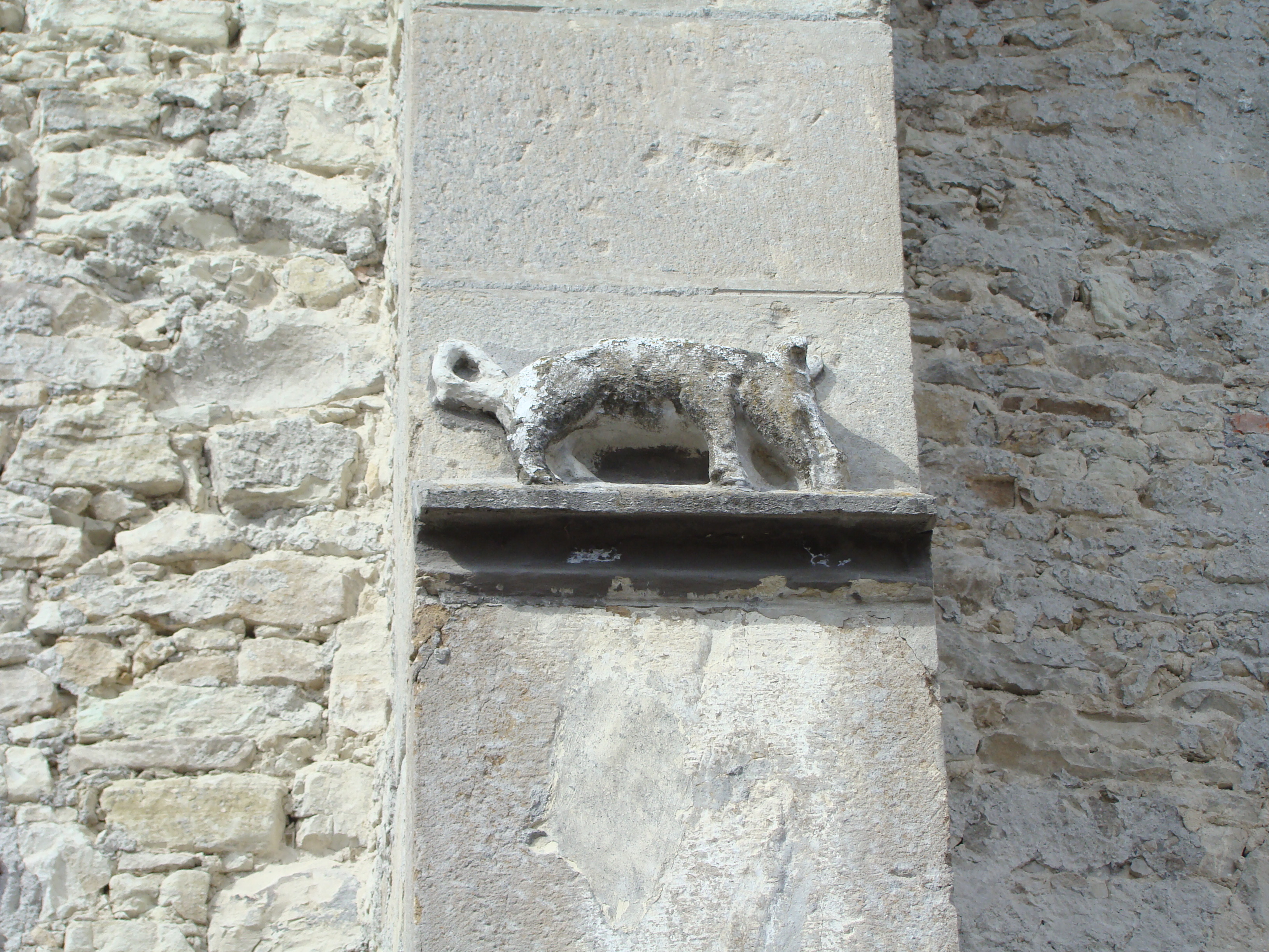 Saint Demetrius church in Dipșa (former lutheran church), Bistrița-Năsăud county, Romania